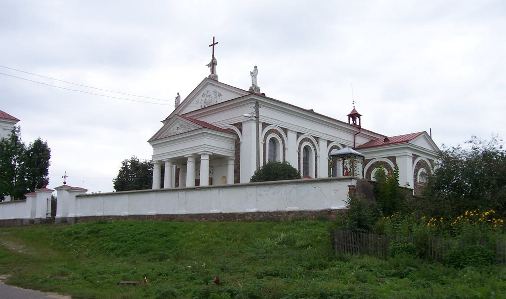 Catholic church of the Assumption of Mary in Zhaludok